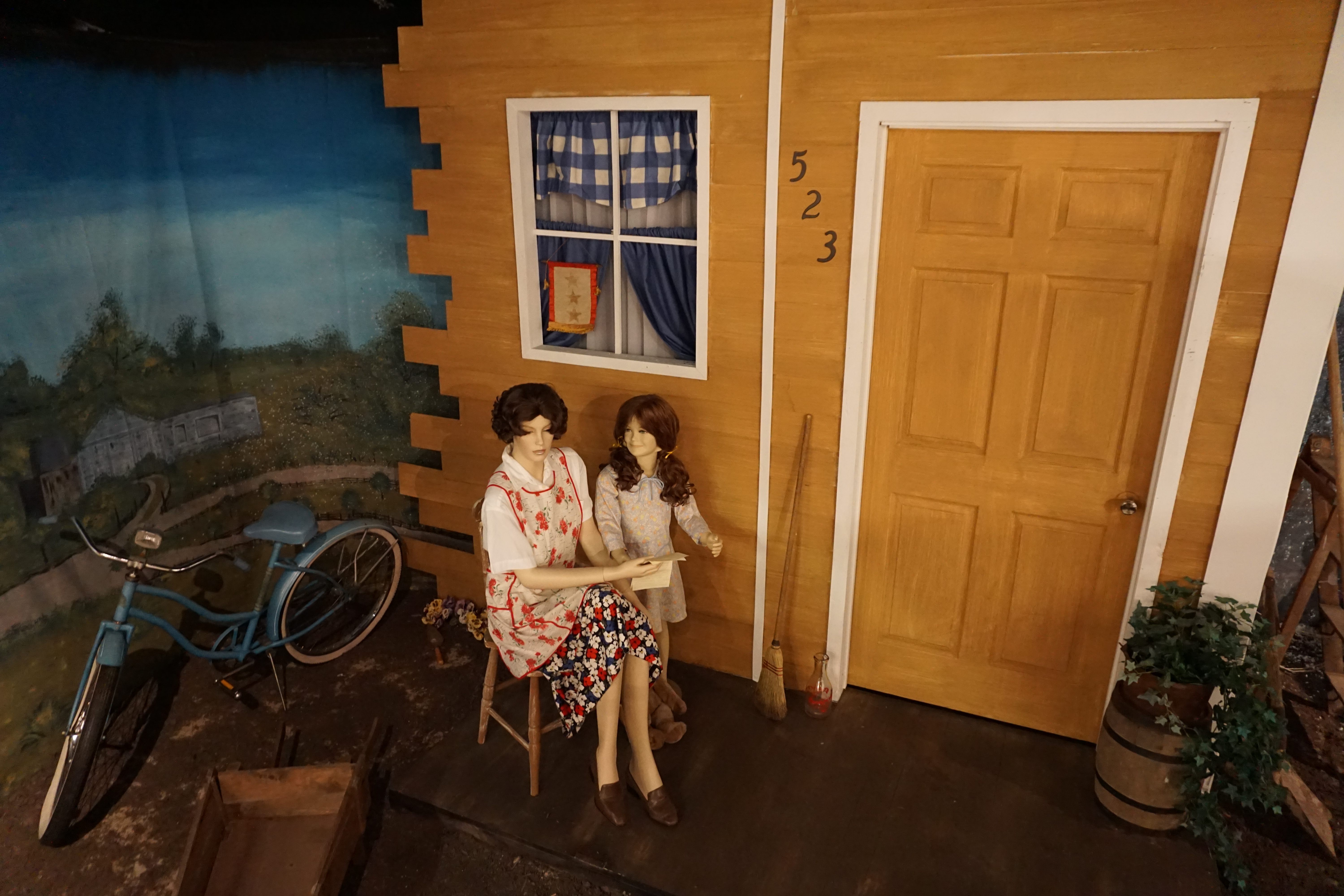 The World War II American home front diorama at the Audie Murphy American Cotton Museum in Greenville, Texas (United States).